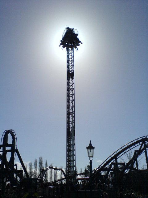 Detonator at Thorpe Park. Detonator is a freefall drop ride where the riders sit on seats placed around the ride's column. The seats are then winched up 100ft and a countdown is given by the ride's themeing. Just as the count down reaches zero (maybe sooner or later at the ride operator's discretion) four pistons shoot the seats down the column giving a brief negative G experience. The rollercoaster in the background is Nemesis Inferno, a B&M inverted coaster.